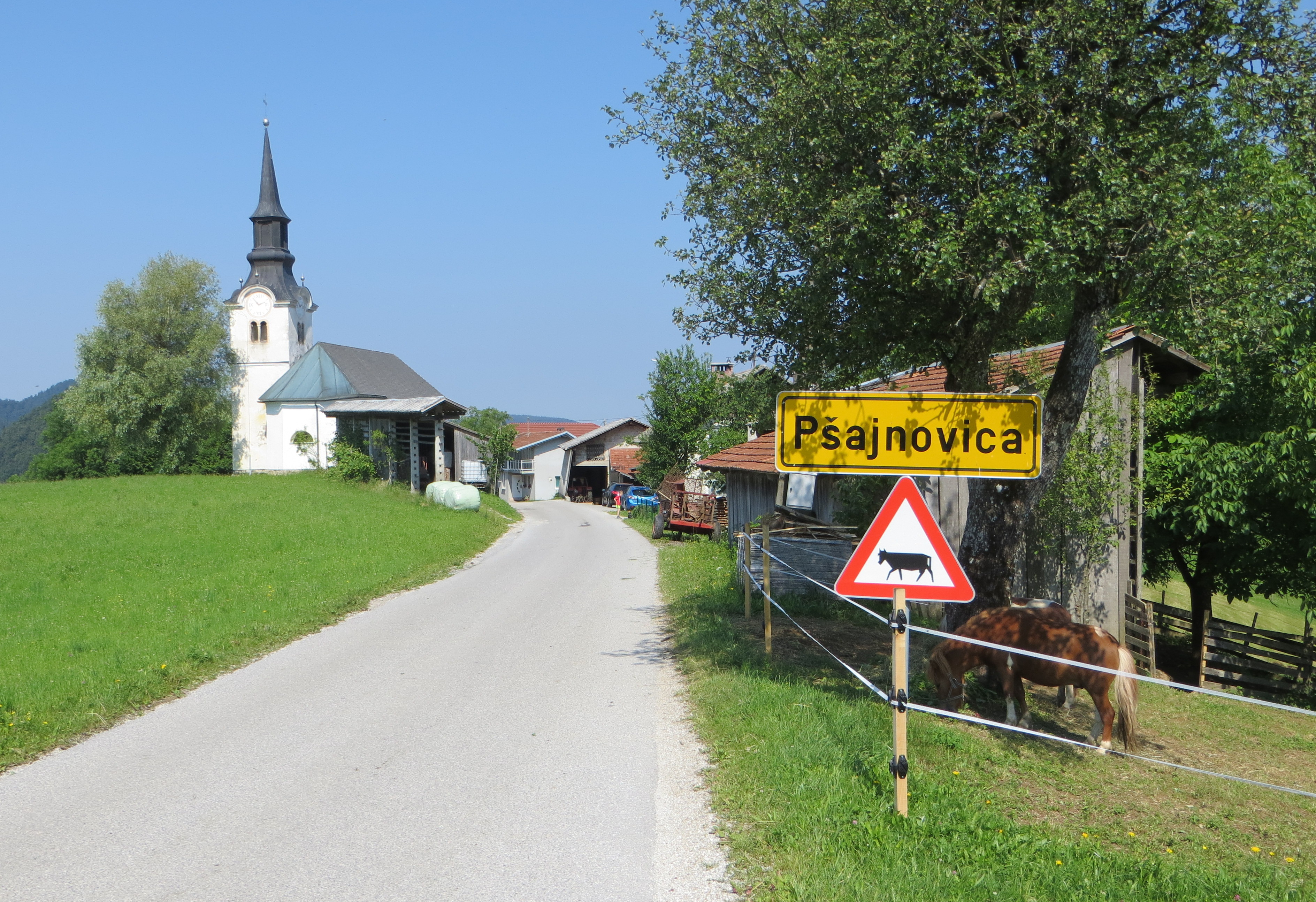 Pšajnovica, Municipality of Kamnik, Slovenia